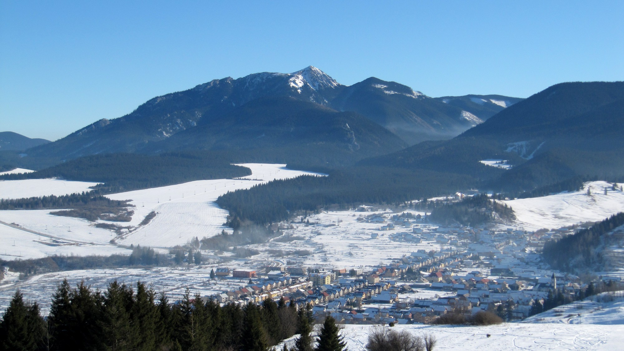 Osobitá from Zuberec